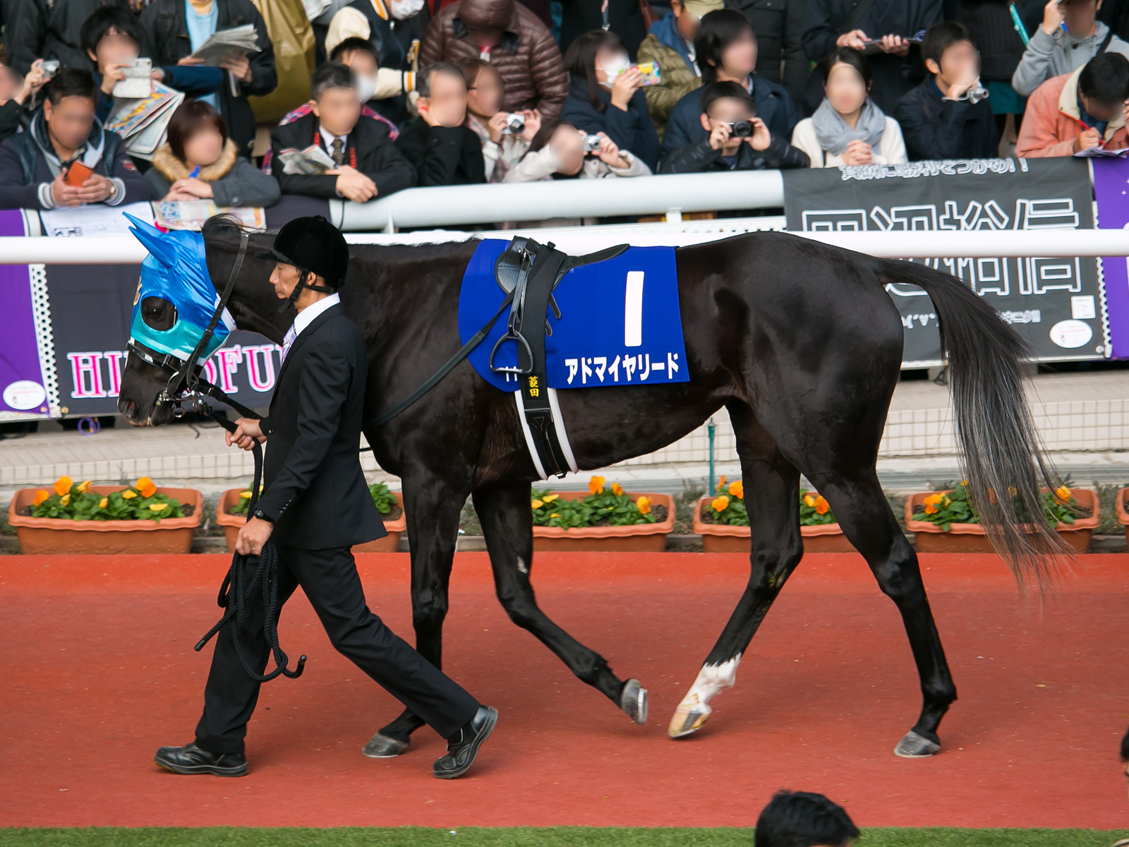 Admire Lead (Racehorse of Japan).